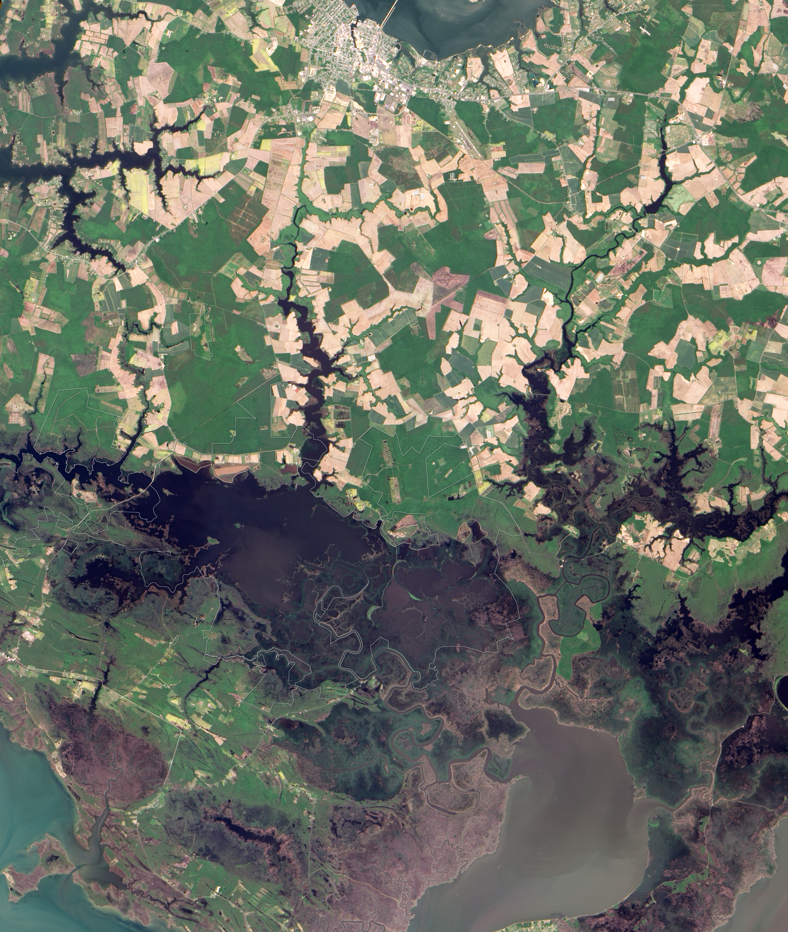 Much of the water in this preserve appears dark purple-brown, especially in the west and north. In the south-east, the water appears paler in colour, likely due to a combination of exposed and submerged land. Sunglint—the mirror-like reflection of sunlight off the water’s surface—may also lighten the water’s appearance. Drier land, including farmland, varies in colour from green to beige. A patchwork of fields occurs near the Little Blackwater River. A white outline delineates the complicated park boundary, which negotiates a maze of private lands outside the park.